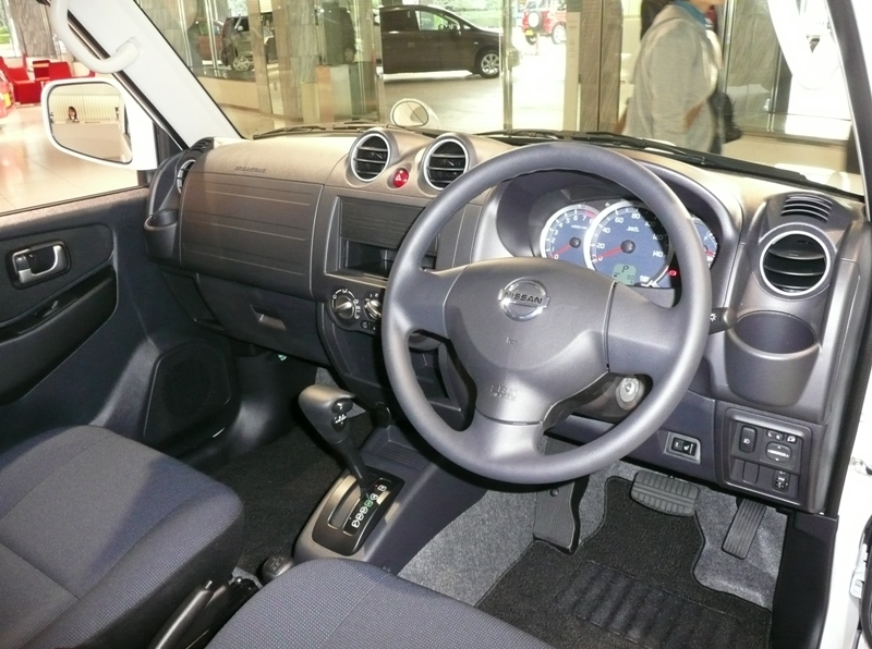 Nissan Kix interior.